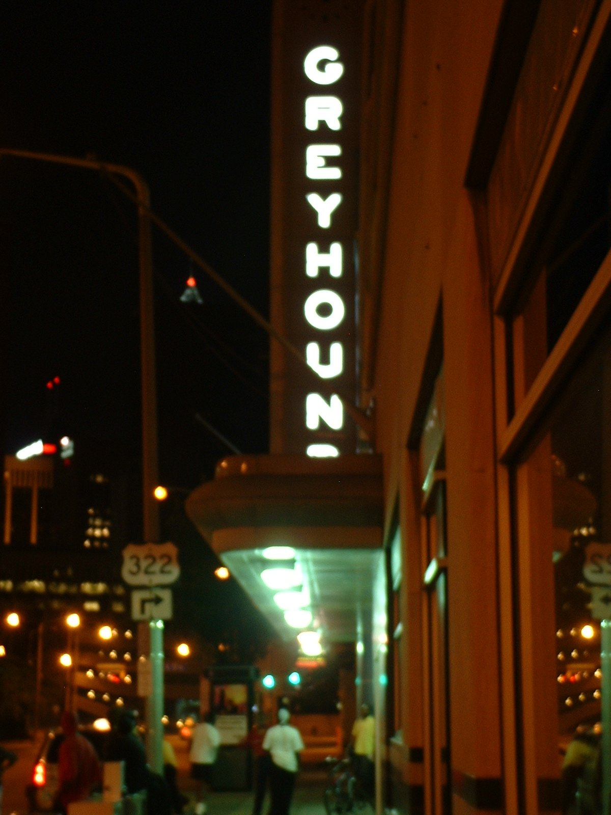 Nightime shot of the Greyhound bus terminal entrance in downtown Cleveland, OH.